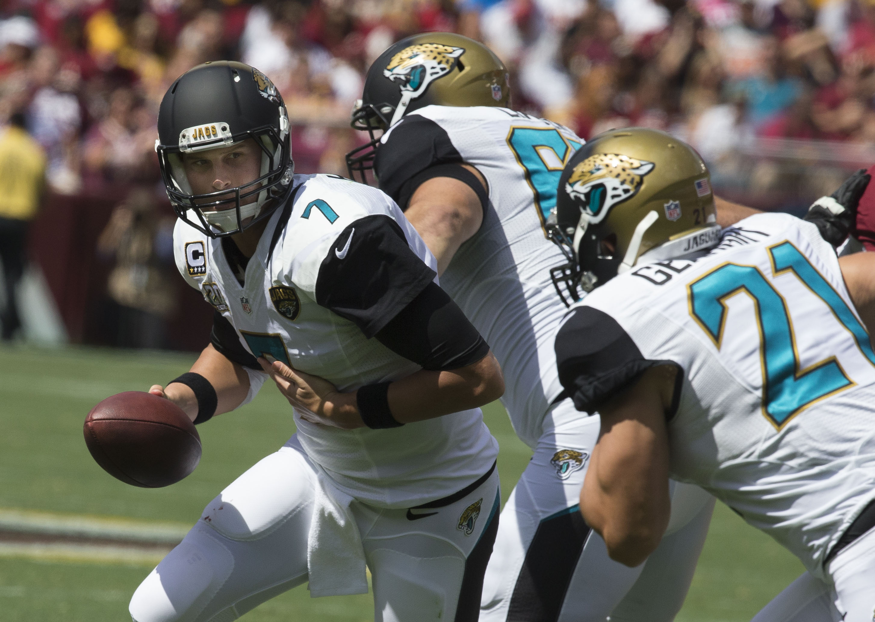 Jaguars at Redskins 2014